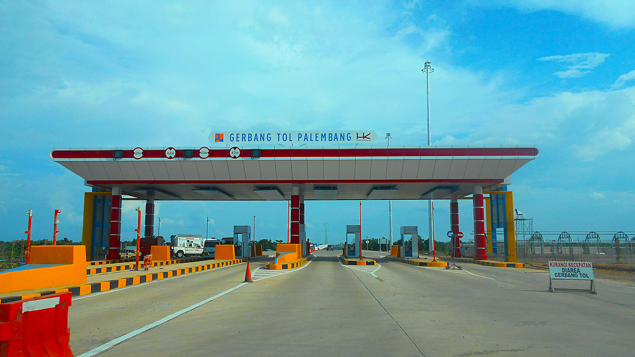 The picture is taken between June 2017, This is the first Toll Road in South Sumatra (located near Banyuasin Regency-Palembang border), this toll distance 22 KM (13,7 Miles). From 7 KM (4,3 Miles), the exit toll through the Pemulutan Toll Gate, from 12 KM (7,5 Miles), the exit toll throught the Indralaya Independent Integrity City (Kota Terpadu Mandiri Indralaya), from 21 KM (13 Miles), the exit toll throught the Indralaya Toll Gate and direction to the Universitas Sriwijaya Indralaya (Sriwijaya University of Indralaya).